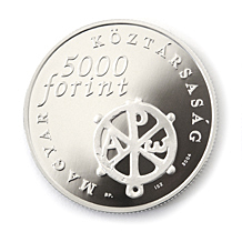 Ancient Christian Catacombs of Pécs, collector coin made of silver, struck, 2004. Designer: Laszlo Szlavics, Jr.